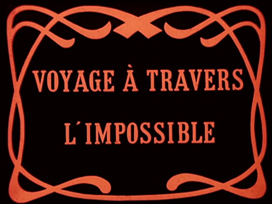 Scene from a hand-colored print of Georges Méliès's 1904 film The Impossible Voyage.